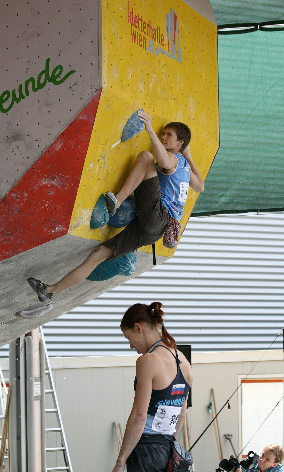 Mina Markovič and Alexey Rubtsov during the semi-finals at the IFSC Boulder Worldcup Vienna 2010.